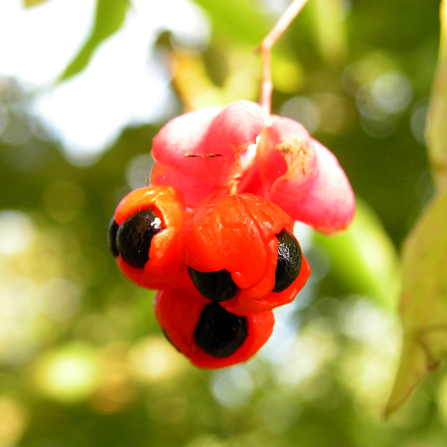 The fruit of Euonymus verrucosus. Moscow region, Russia.